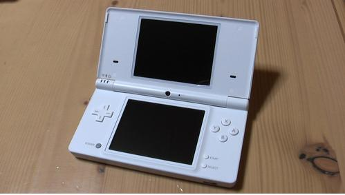 Nintendo DSi Photo